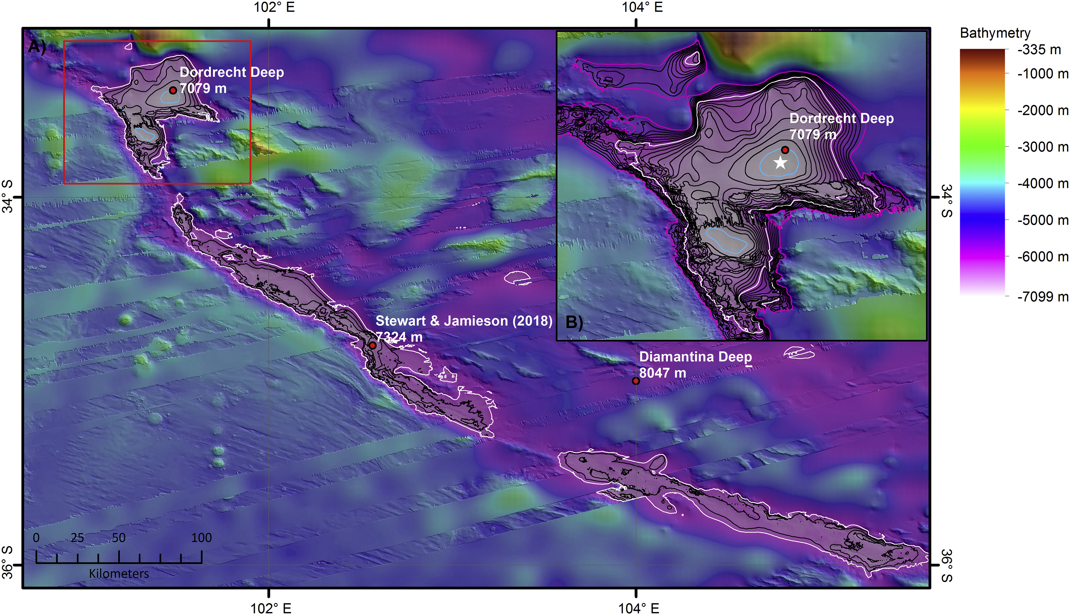 Map of the deepest section of the Diamantina Fracture Zone with the locations of published ‘deeps’ (red circles) (Table 1). The 6000 m depth contour is shown in white. The deepest section of the feature is defined by the 7000 m contour (blue). All other contours at 200 m intervals (between 6000 and 7000 m water depth) (B) Inset map of Dordrecht Deep with the deepest point determined during this study (white star = between 7090 and 7100 m water depth) which is within 4 km of the published GEBCO Gazetteer location for Dordrecht Deep. The outer rim of Dordrecht deep lies at 5300 m water depth (pink contour). The 7000 m contour is coloured blue. All other contours at 100 m intervals (between 5300 and 7000 m water depth). For location of inset map see the red box in Fig. 5A. Illumination from 45° at an altitude of 25°.